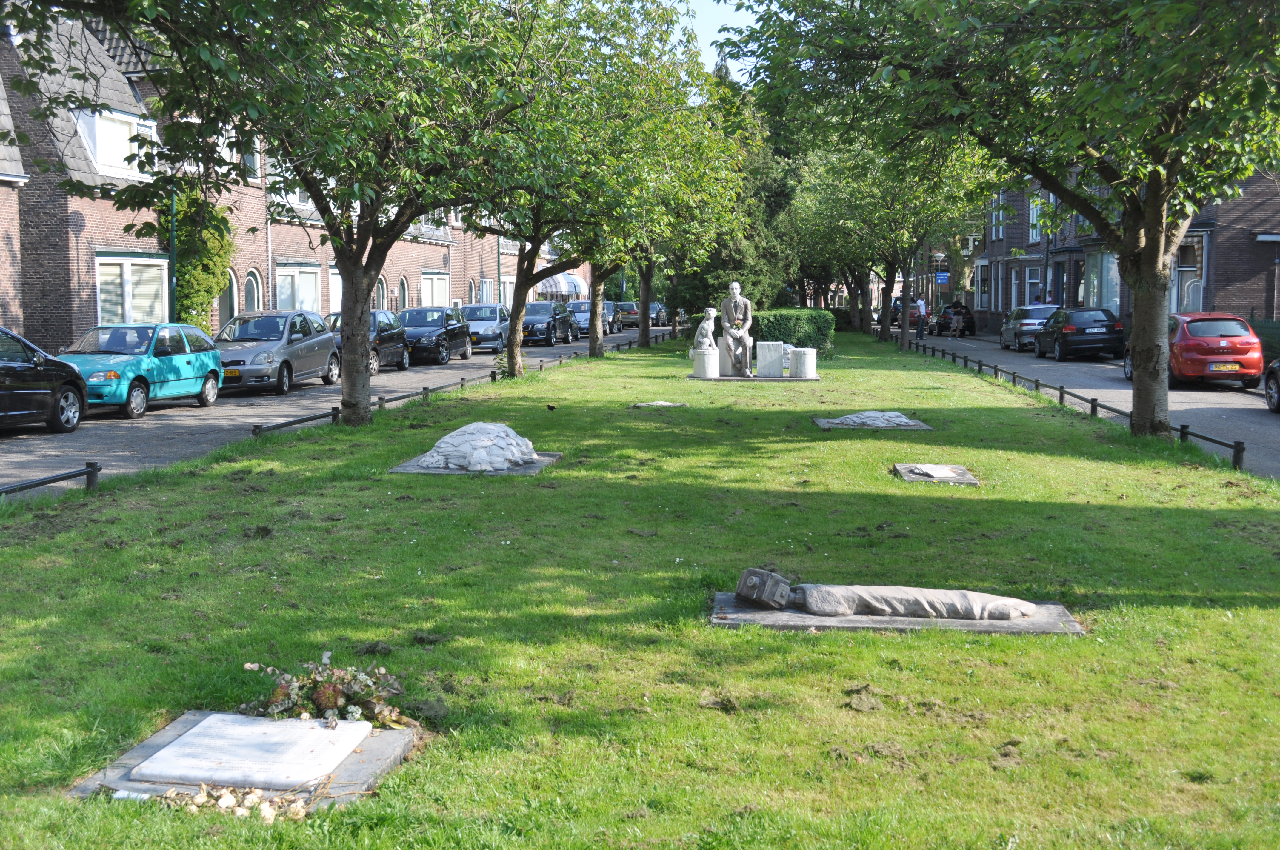 World War II Memorial Jewish victims "Familieportret" (Family portrait) by Ingrid Mol in 2003. Placed at the Prins Benhardlaan/Wilhelminaweg in Woerden.